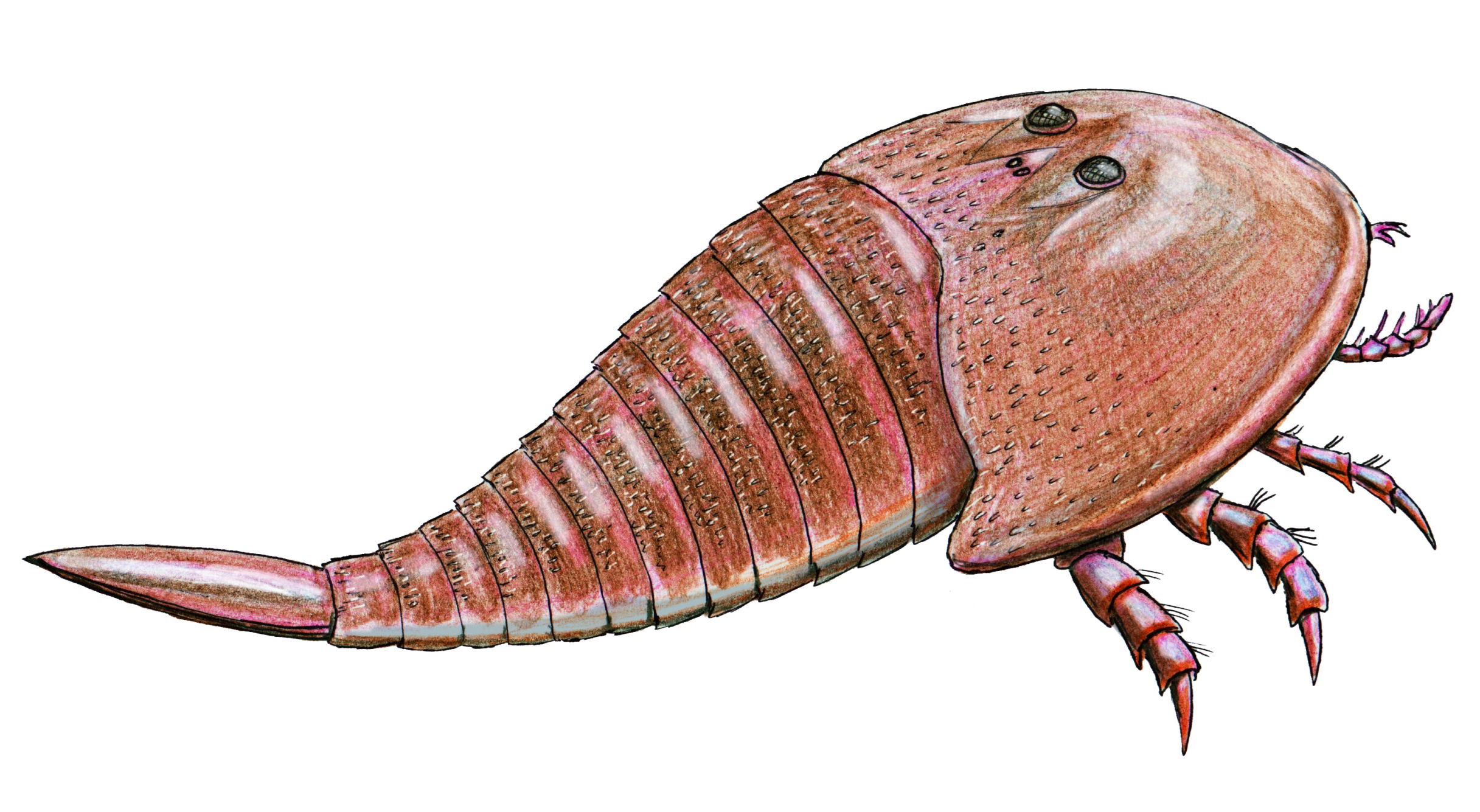 Hibbertopterus scouleri - giant Eurypterid from Carboniferous of Scotland, reconstruction follows Woodward (1872) for the body and head and Whyte (2005) for the limbs and telson.